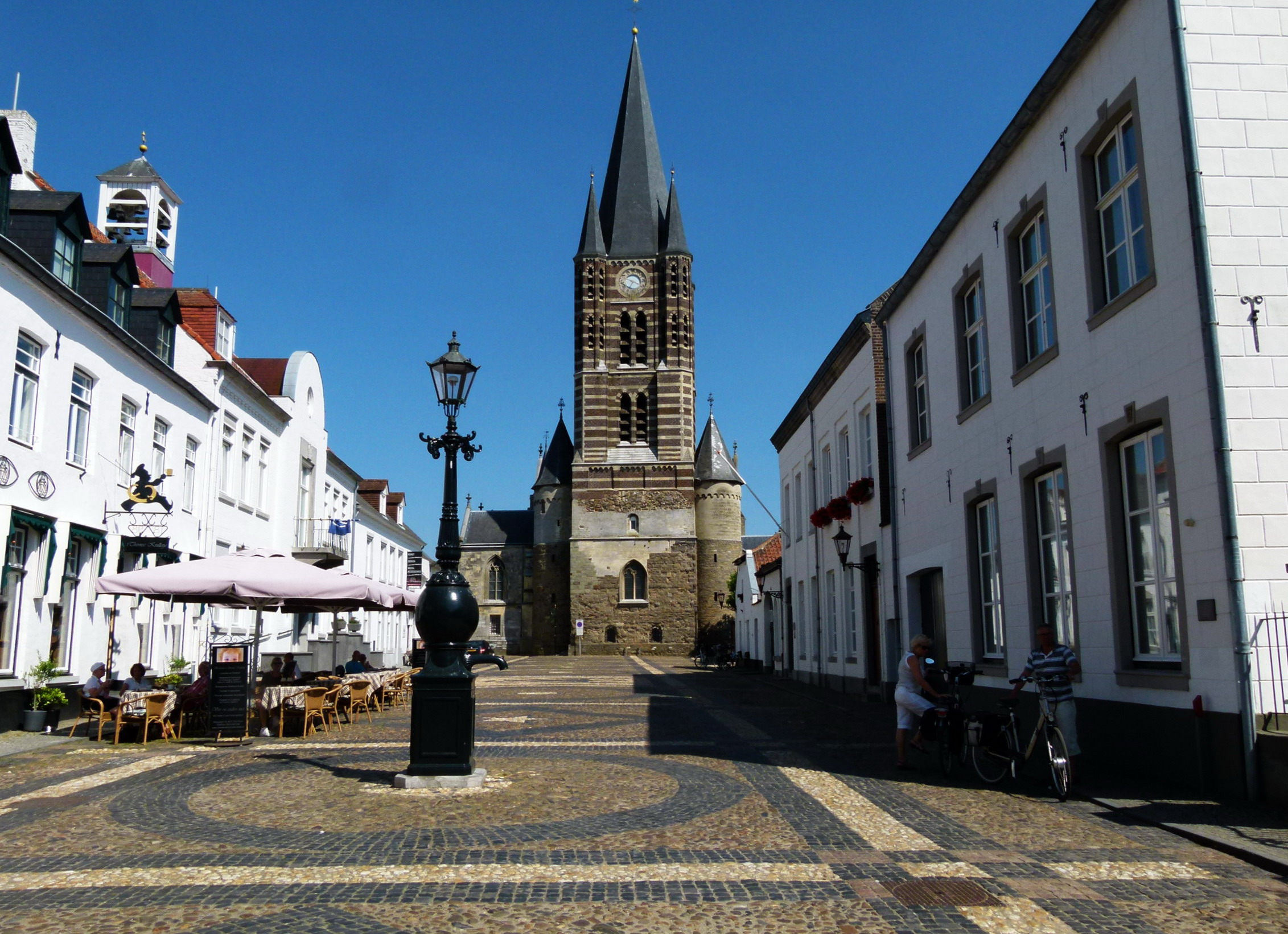 View of Wijngaard square with whitewashed houses and the Westwork of the former abbey church of Thorn, in the Southern part of the Netherlands.